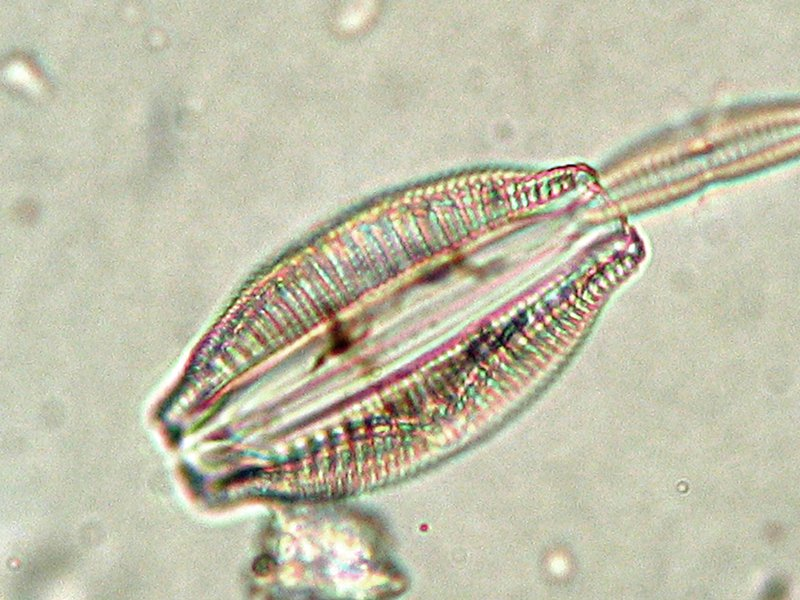 This work is free and may be used by anyone for any purpose. If you wish to use this content, you do not need to request permission as long as you follow any licensing requirements mentioned on this page.